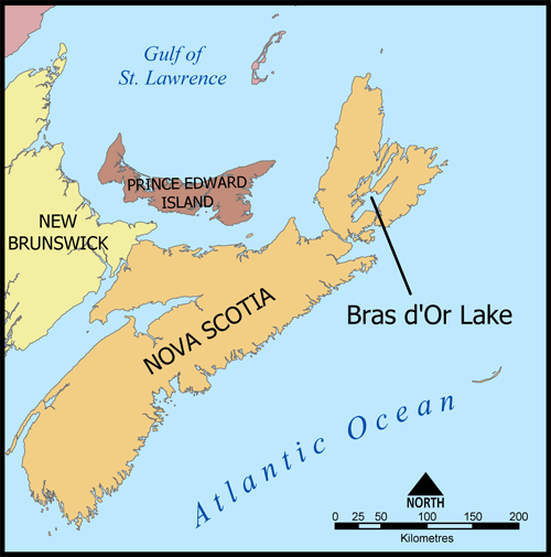 A map showing the location of Bras d'Or Lake, Nova Scotia, Canada. Created by NormanEinstein, May 12, 2005.